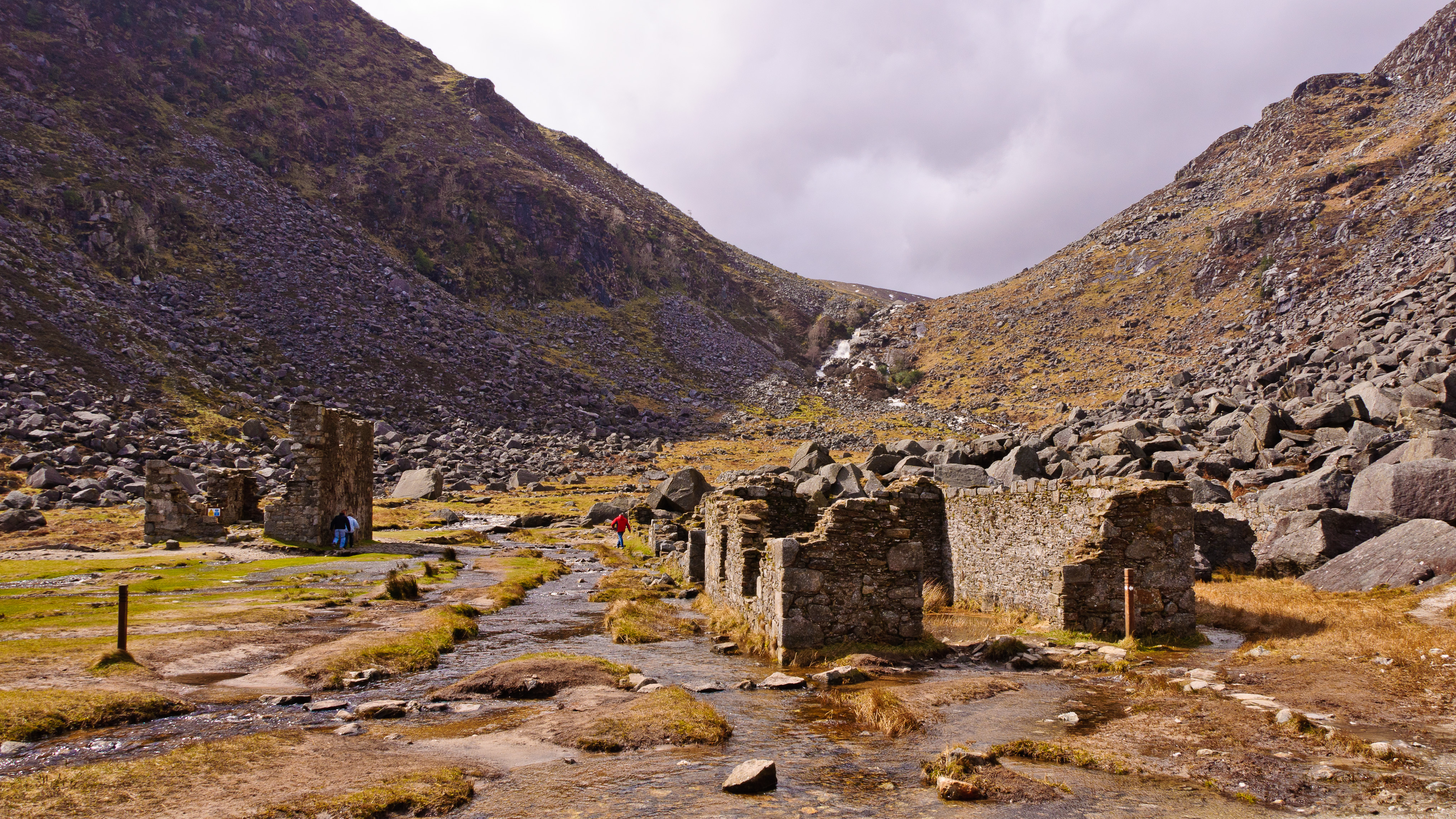 The ruined miners' village in Glendalough, County Wicklow, Ireland